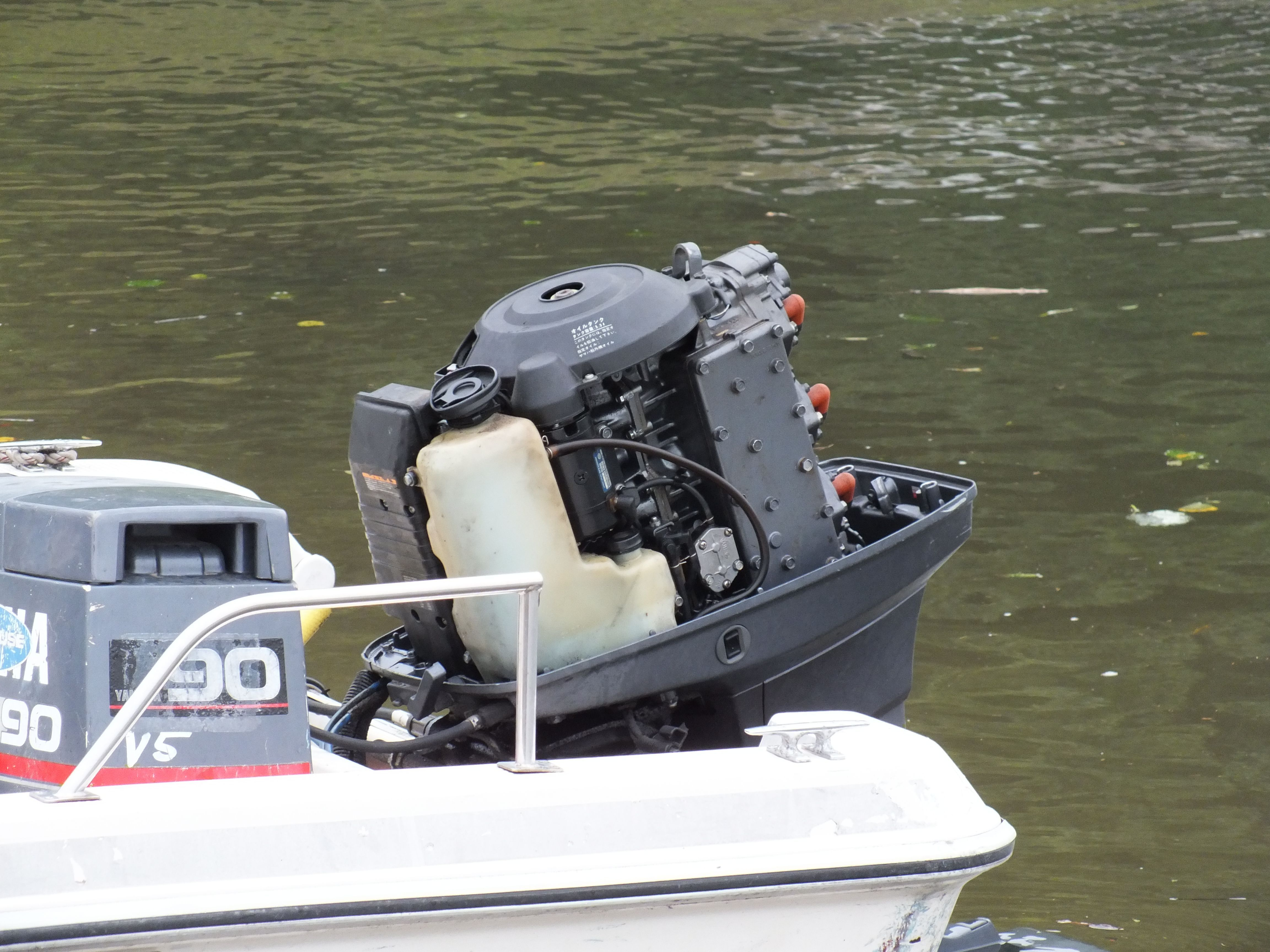 Yamaha outboard motors